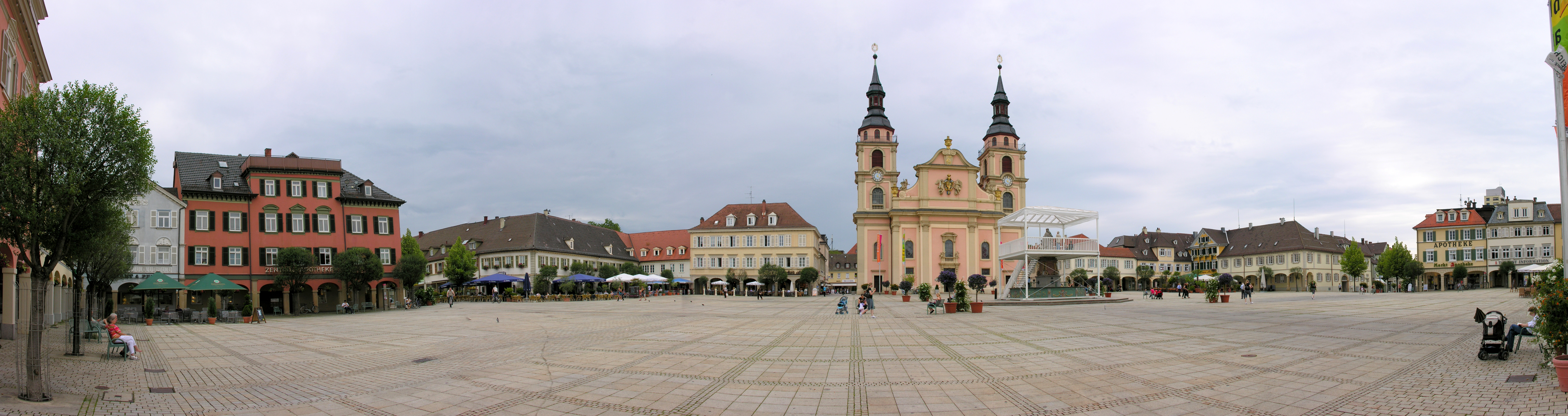 Ludwigsburg market square, Germany